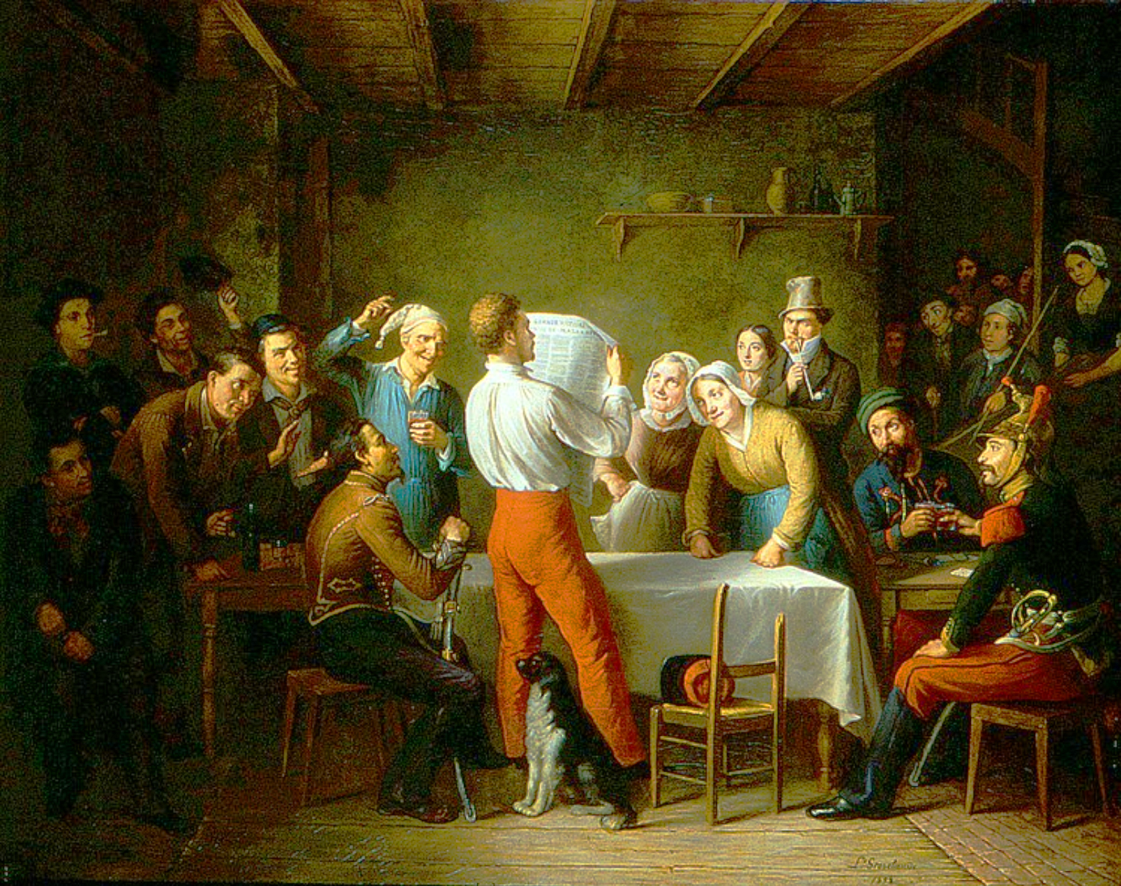 Reading of a bulletin from the French army announcing the taking of the tower of Malakoff